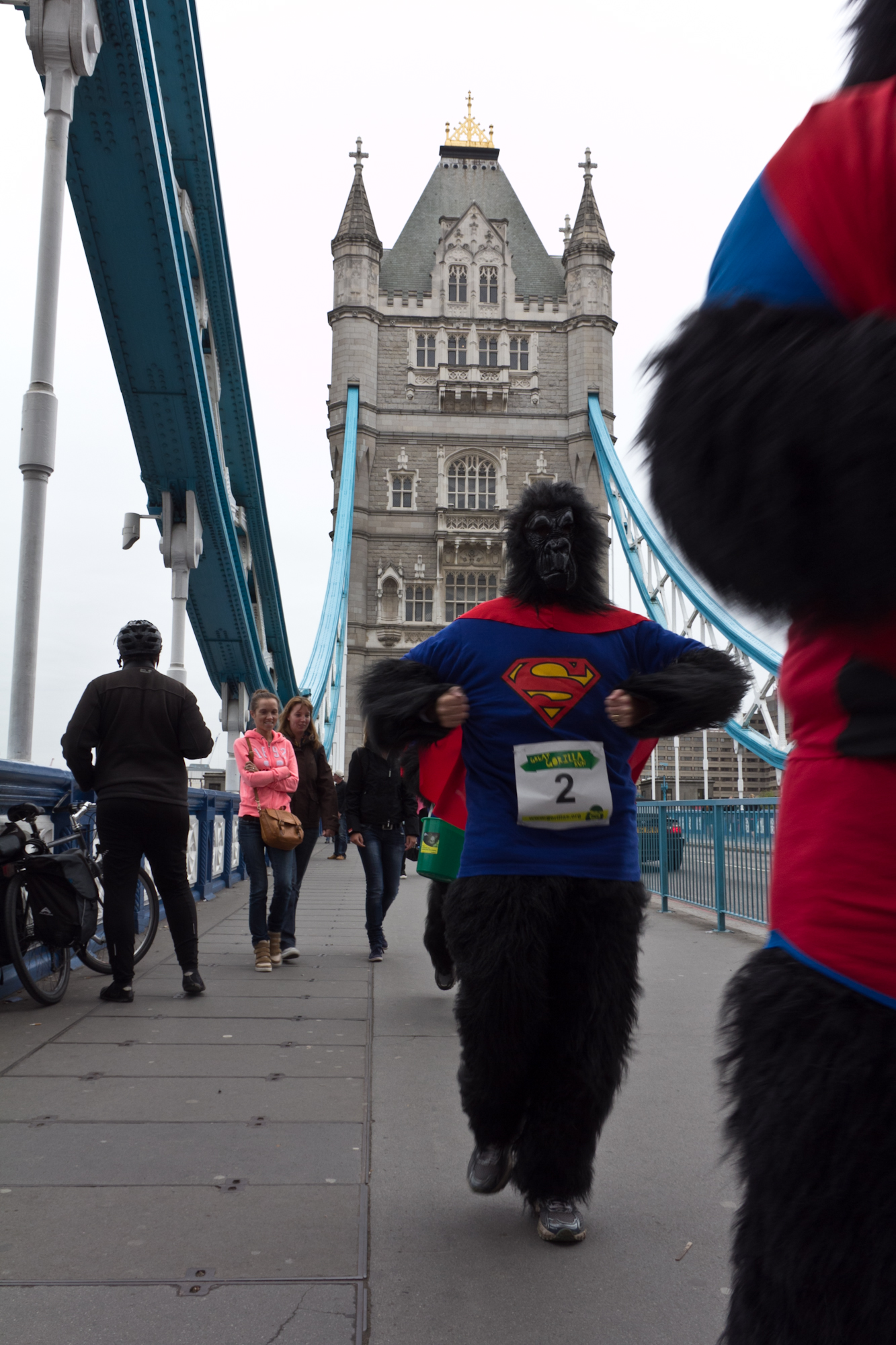 The 2013 Great Gorilla Run passing through Tower Bridge, September 21